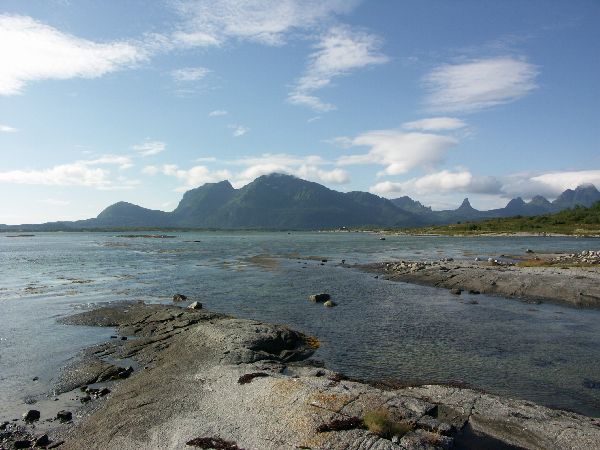 Northwestern coast of Finnøya with Hamarøy mountains in the background